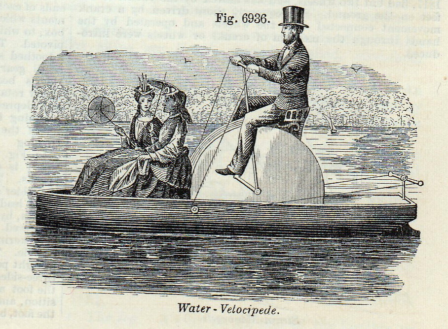 Water velocipede, c.1877 (early form of hydrocycle)